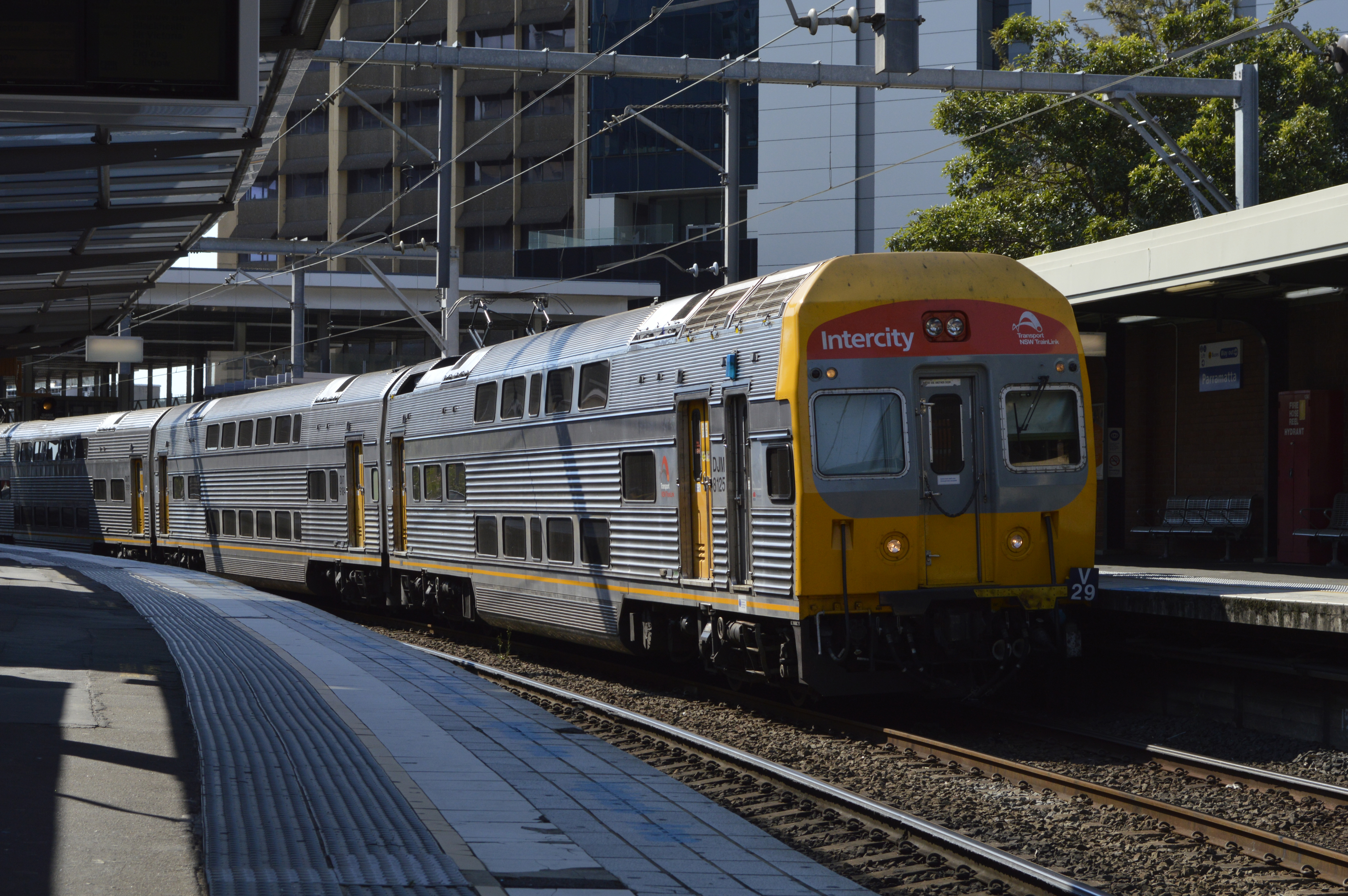 A NSW Trainlink V Set at Parramatta bound for Central.